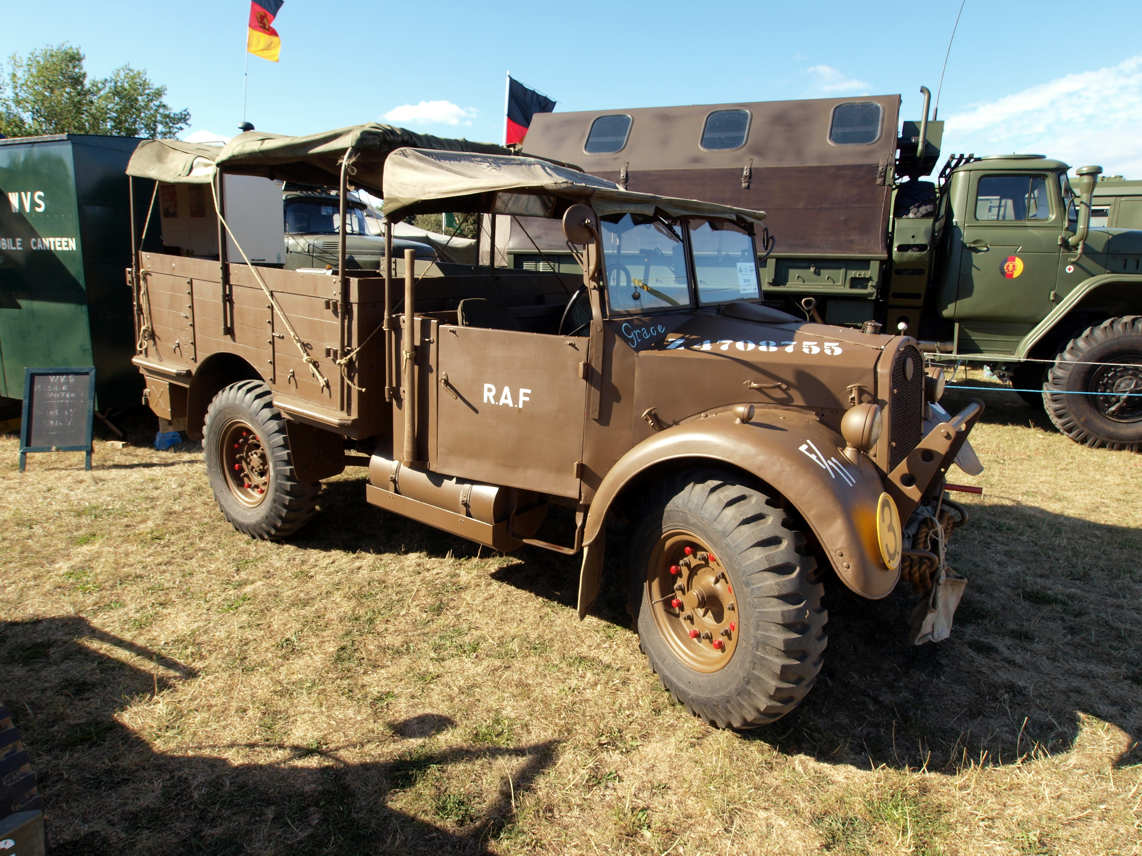 Fordson WOT2 with hoodno. Z4708755